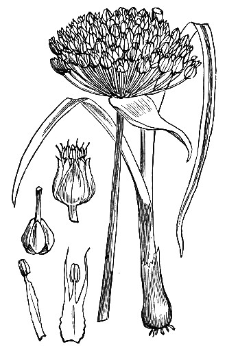 Illustration of Allium ampeloprasum.